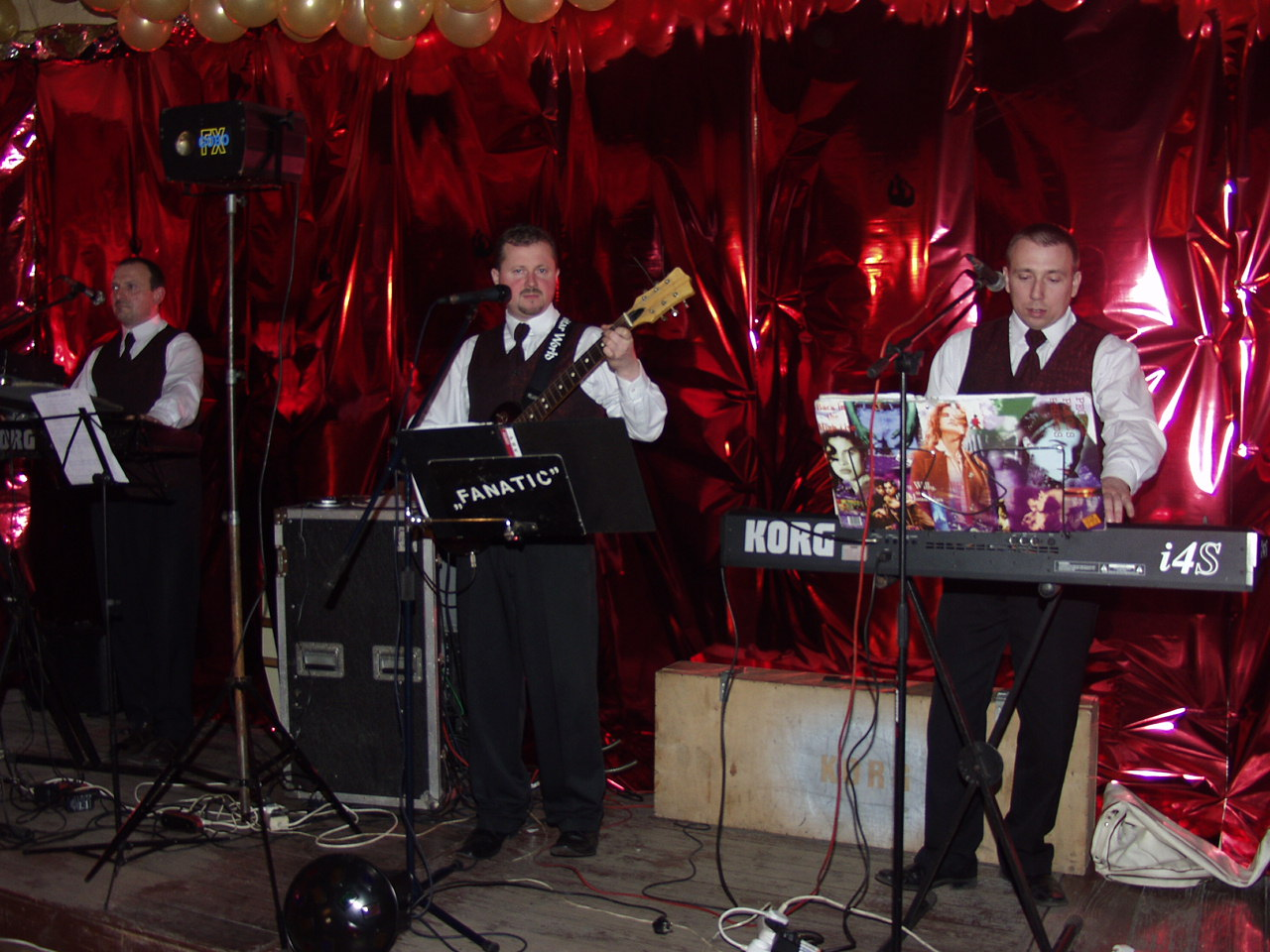 Fanatic – disco polo musical group from Polan City: Żyrardów Location: Prom in Zespół Szkół nr 1 ; ul. Bohaterów Warszawy 4